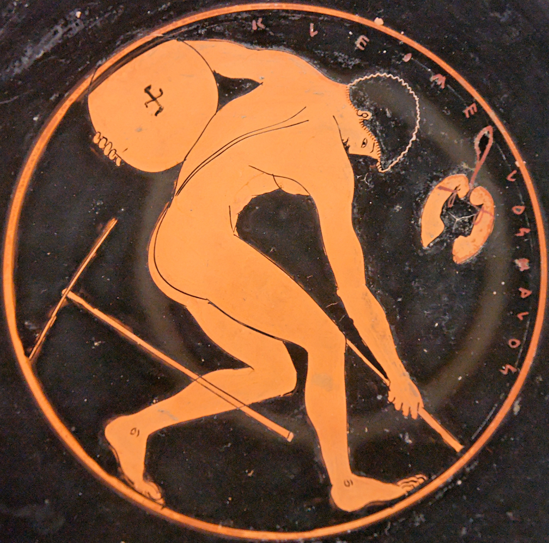 Young boy holding a discus at the palaestra. Near him, a pick to prepare the landing ground for the long jump, and a pair of dumbbells used to maintain equilibrium during the jump. Interior of an Attic red-figure kylix, ca. 510–500 BC. Kalos inscription.